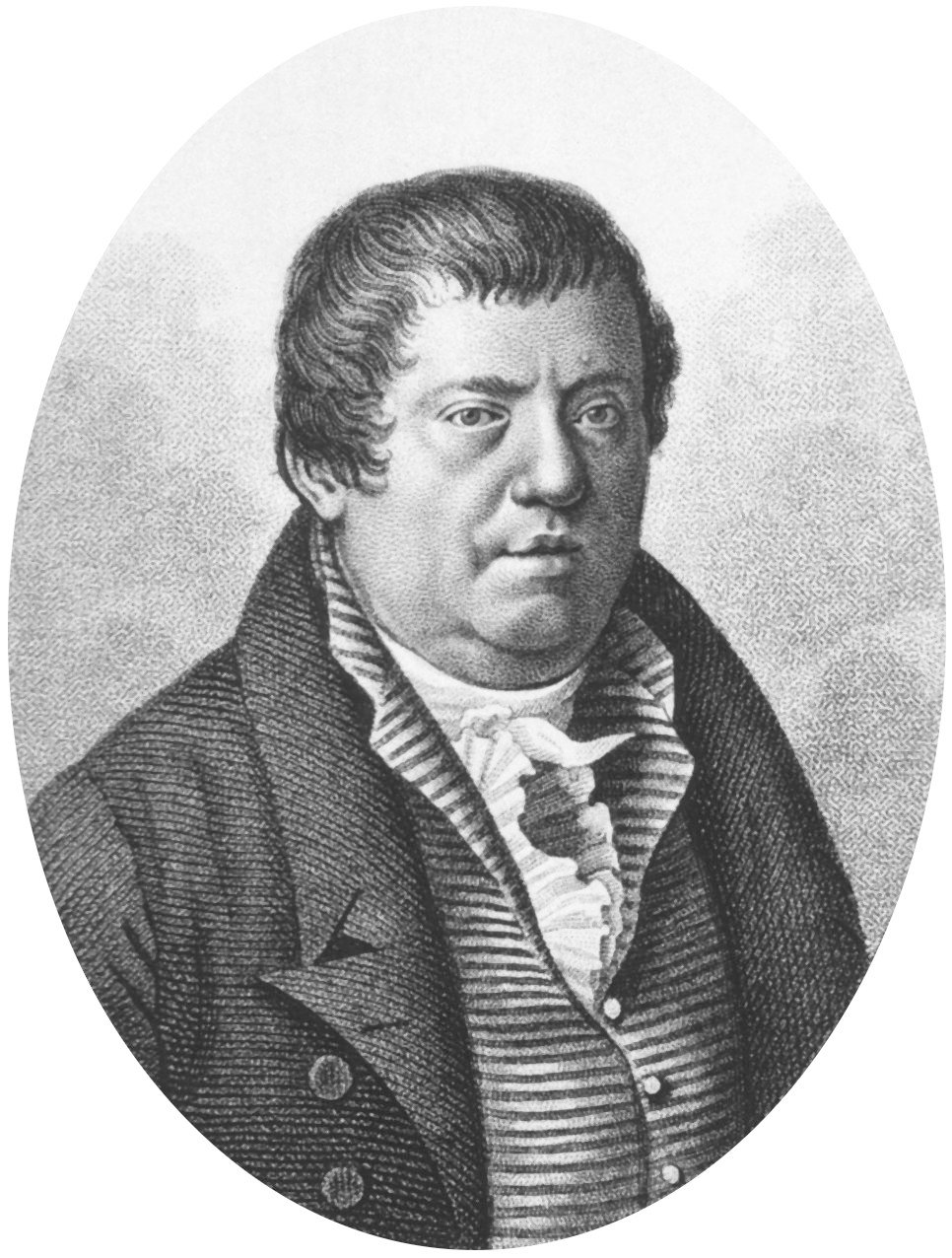 John Leslie (1766-1832), Scottish physicist, Sheet: 24.4 x 16.9 cm